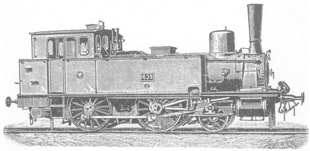 Prussian state railways tank locomotive, Type T4, 1888